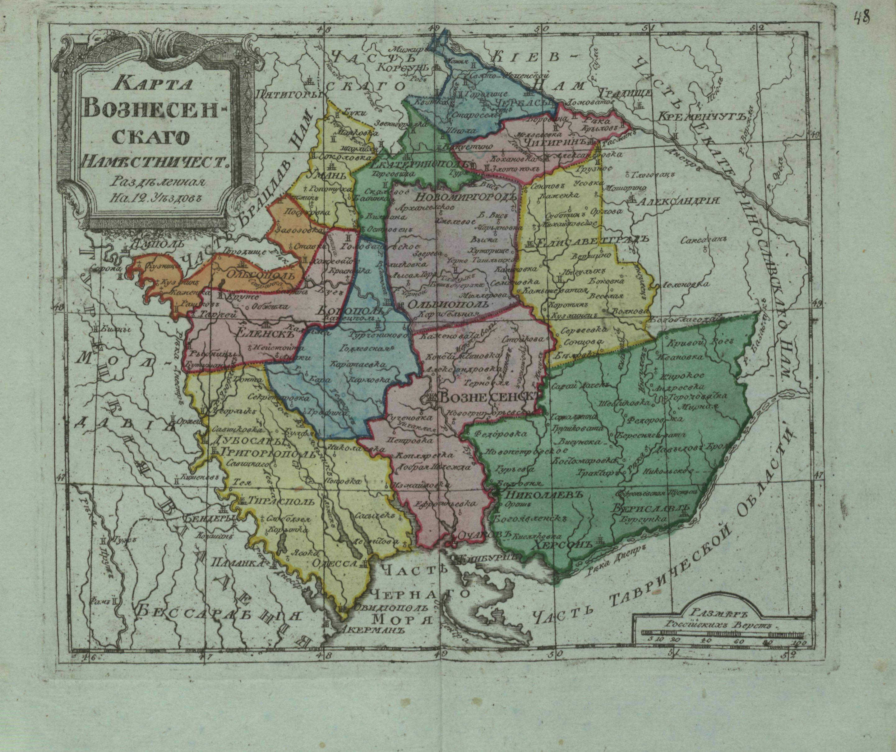 Small atlas of the Russian Empire (1796). Map of Voznesensk Namestnichestvo (map 48).